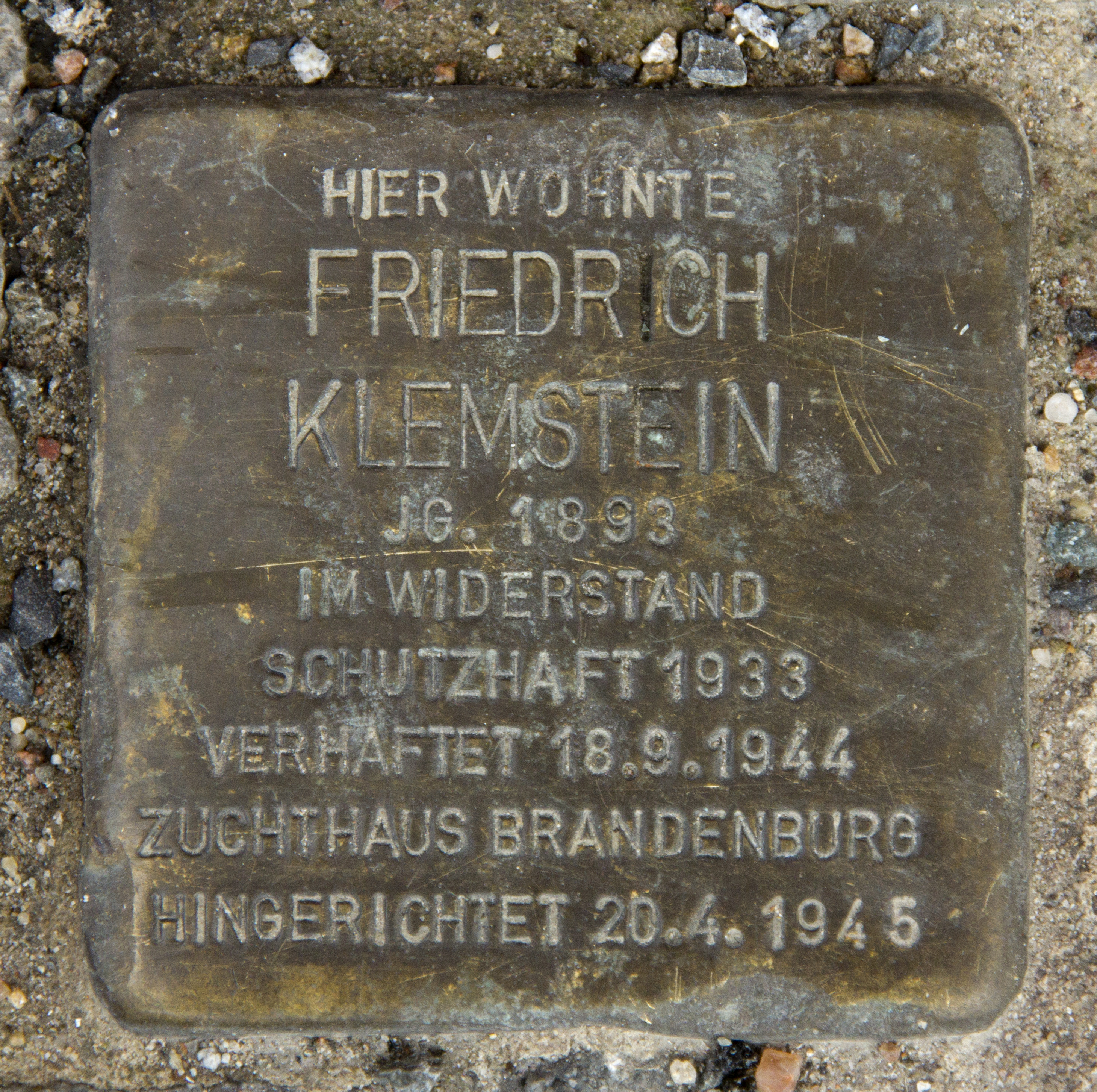 "Stolperstein" (stumbling block), Friedrich Klemstein, Gotzkowskystraße 35, Berlin-Moabit, Germany